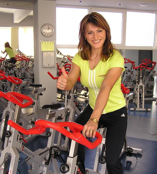 Marietta Žigalová Picture taken in March 2006 in Košice by Marian Gladis.